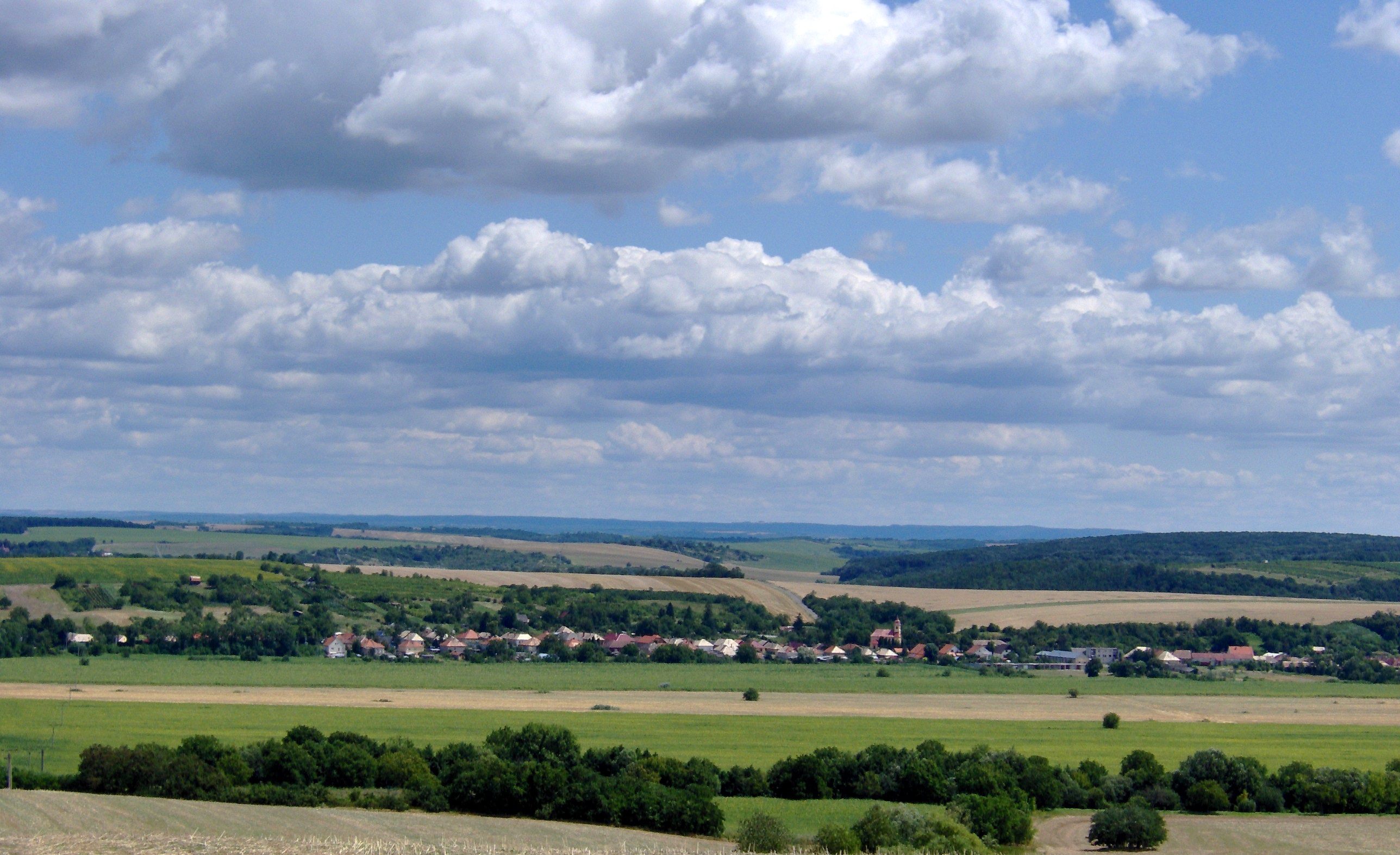 Levice- Malý Kiar